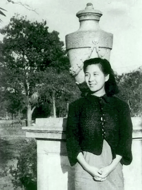 Chinese computer scientist Xia Peisu at National Chiao Tung University Chongqing campus.